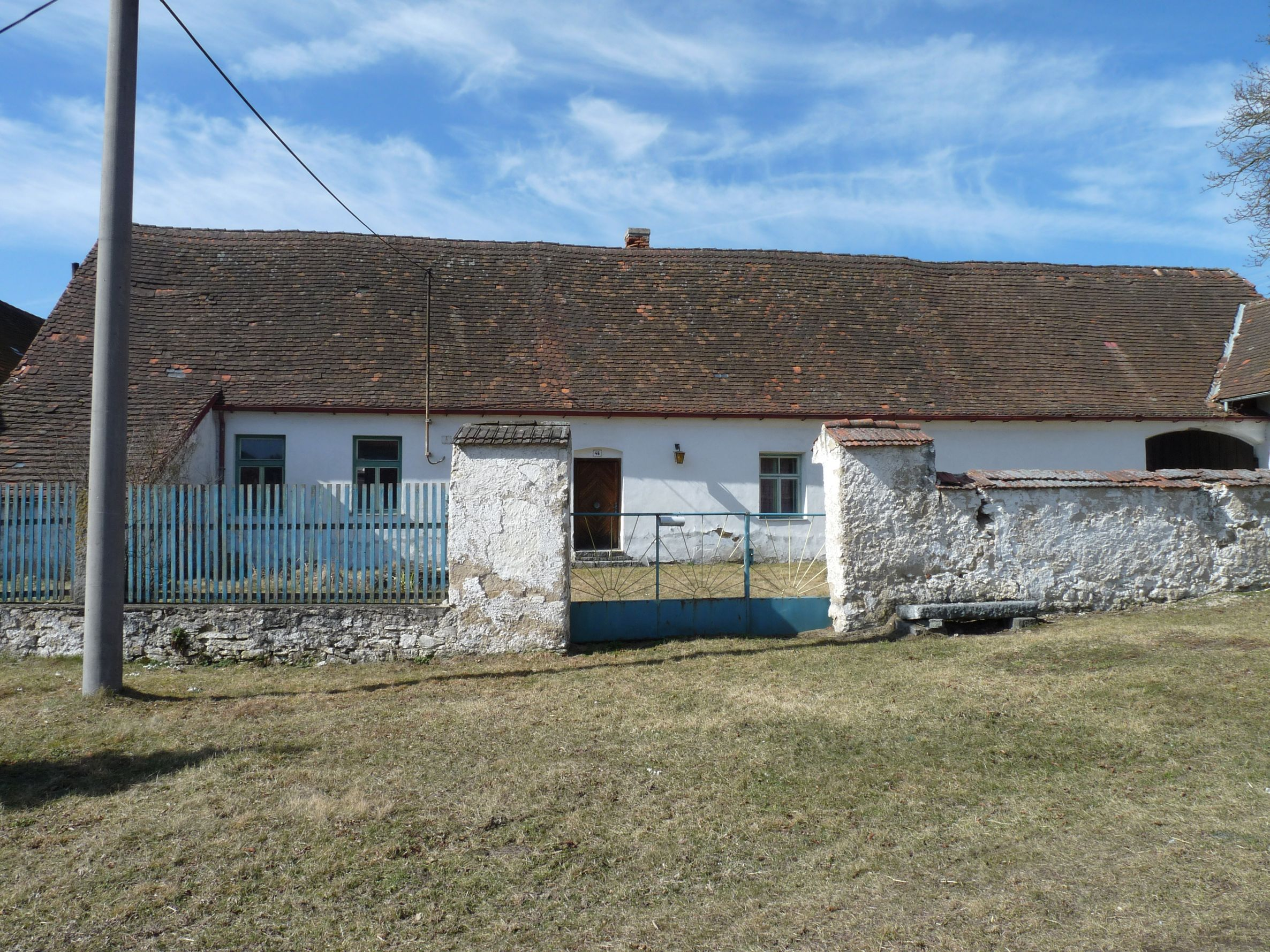 House No 4 in the municipality of Slatina, Klatovy District, Czech Republic with a Jewish community room that also used to serve as a pub